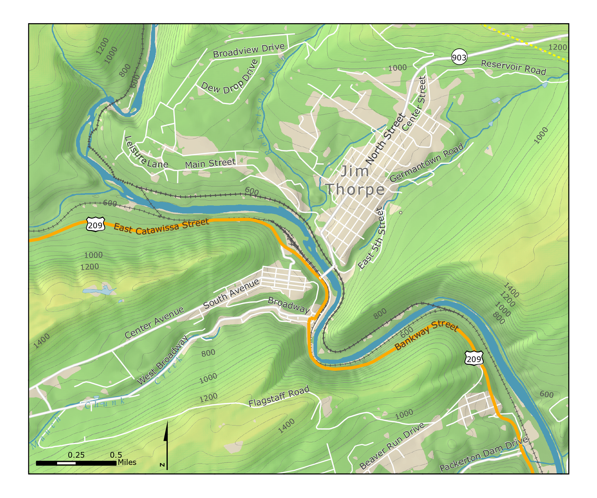 Topographic map of Jim Thorpe, Pennsylvania